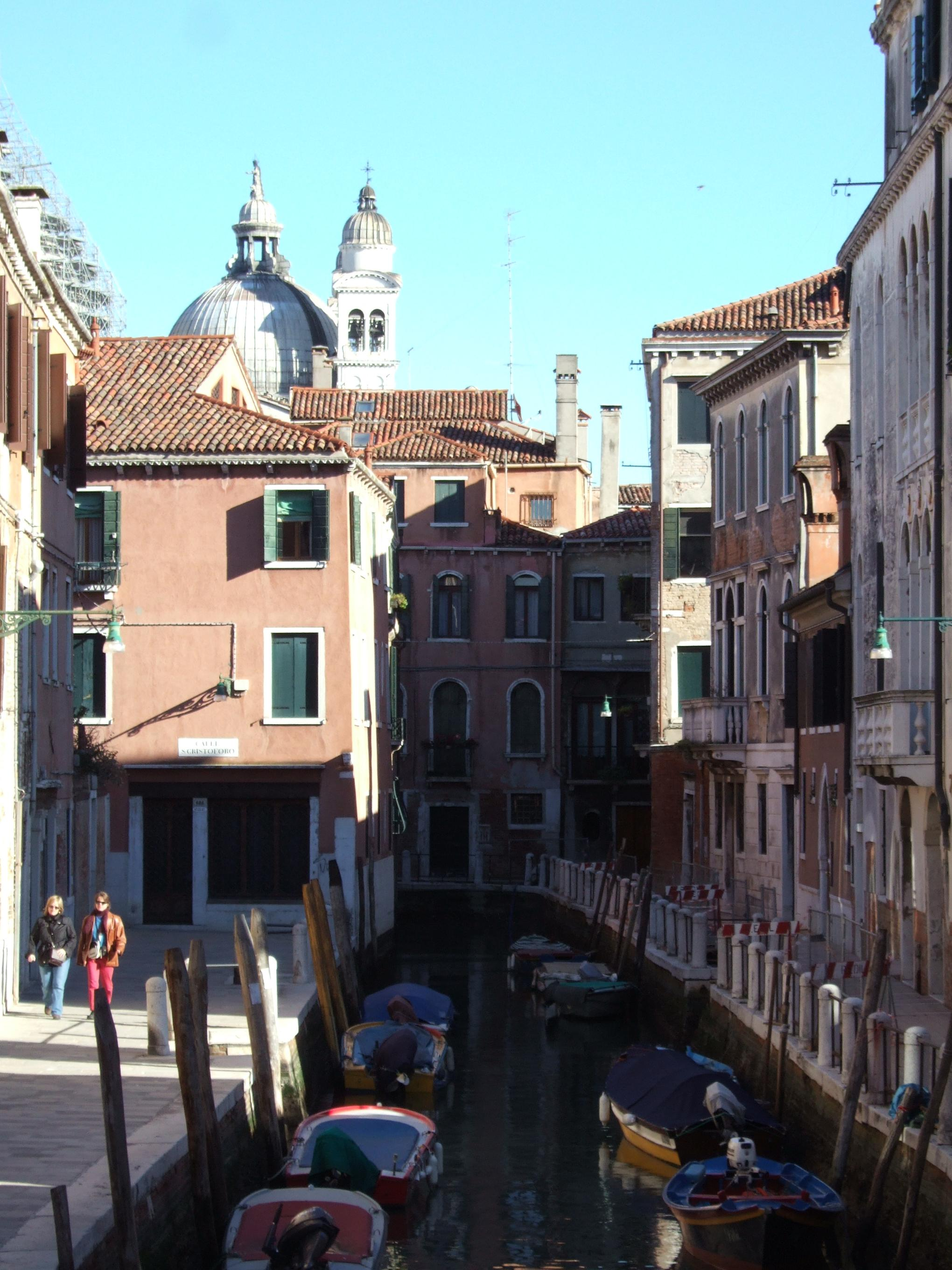 Rio delle Torreselle (Venezia), view from Ponte del Formager